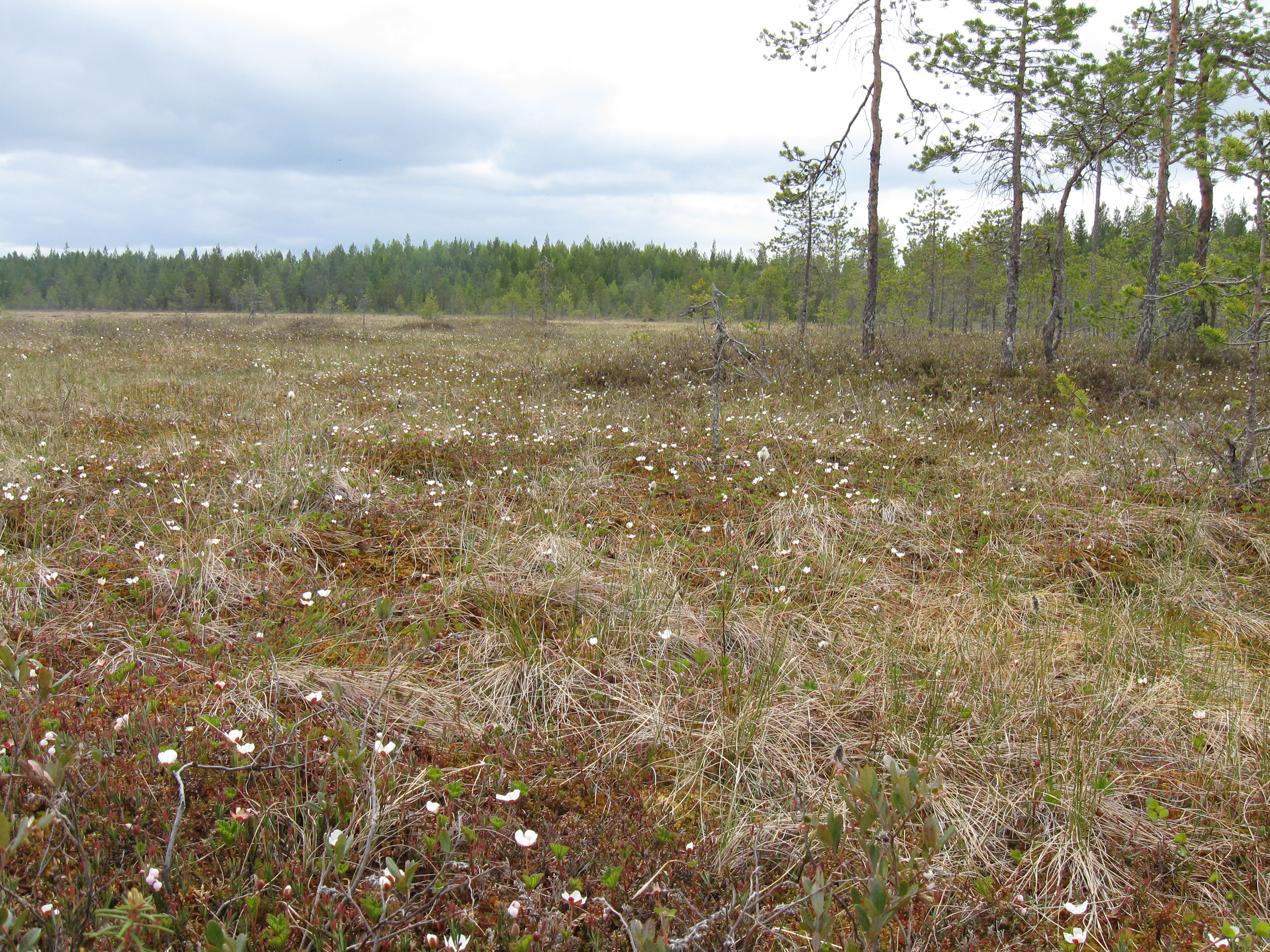 Cloudberry (Rubus chamaemorus) flowers in an open bog in Utajärvi, Finland.